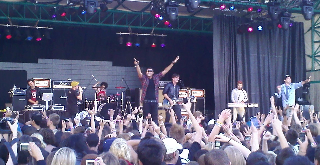 Down with Webster performing on TELUS Stage at Edmonton's Capital Ex.